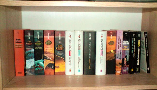 The complete Foundation series and other works